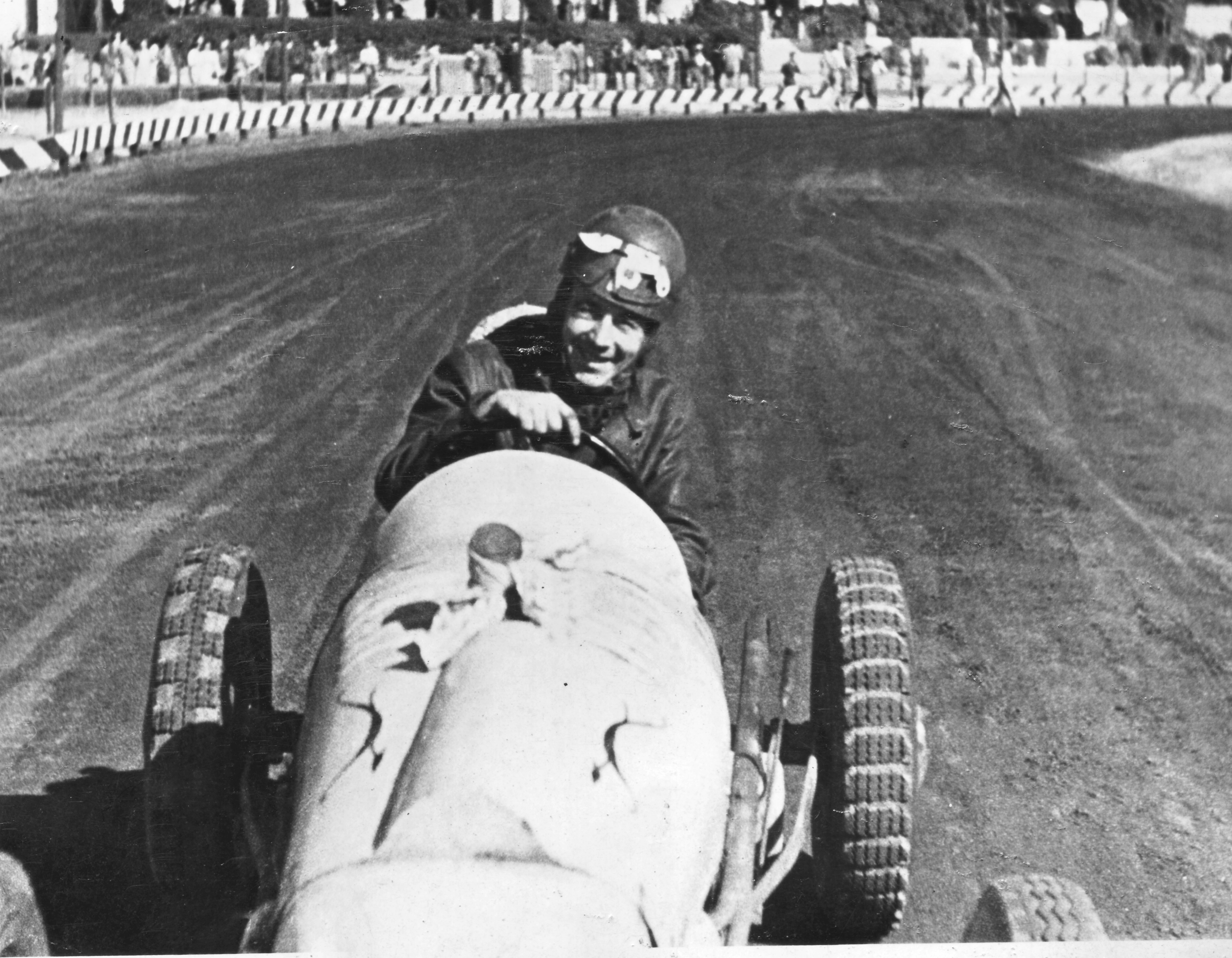 Jaume Pahissa in a midget cars race in the dog racing venue "Canódromo Parque del Sol de Baix", Barcelona (Catalonia) in 1950